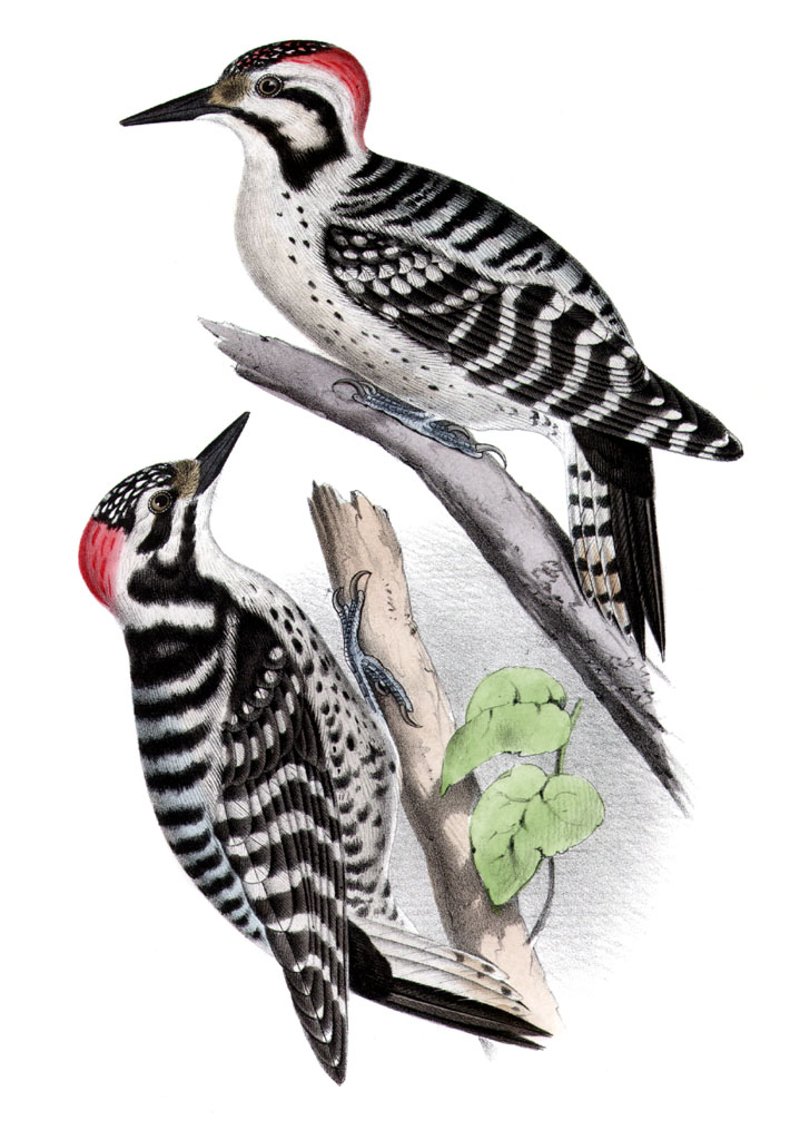 Ladder-backed Woodpecker , Picoides scalaris (upper), and Nuttall's Woodpecker, Picoides nuttallii (lower), hand-colored lithograph